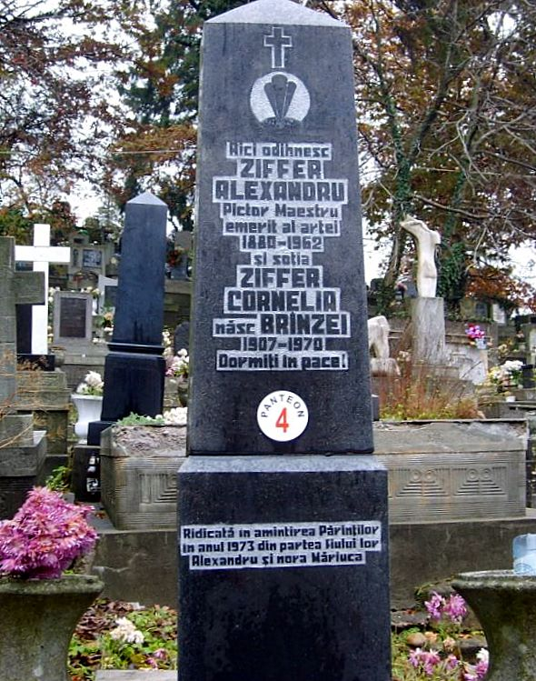 Tomb of Alexandru Ziffer in Baia Mare